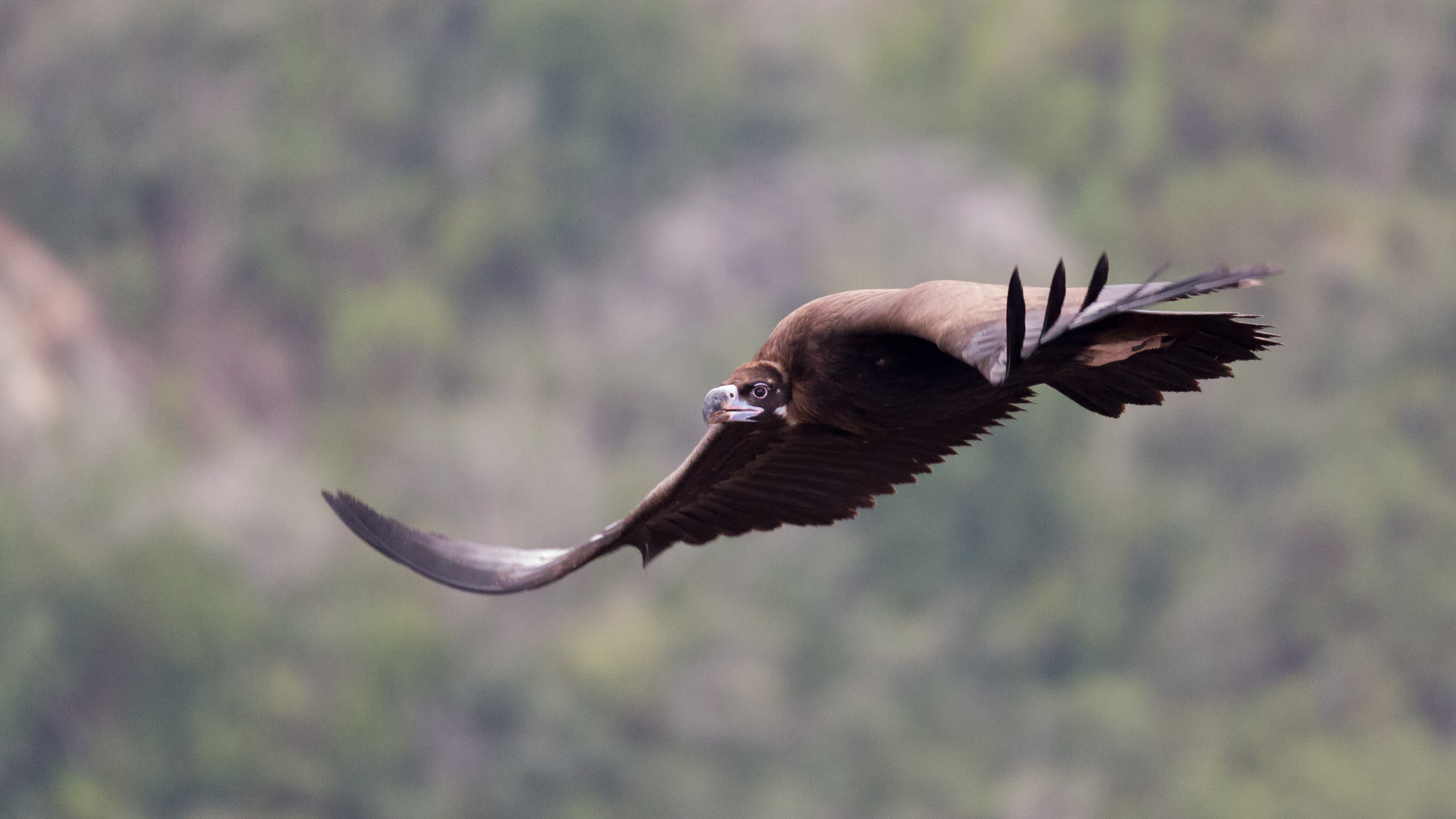 Cinereous vulture in flight over Carmel mountain in Israel